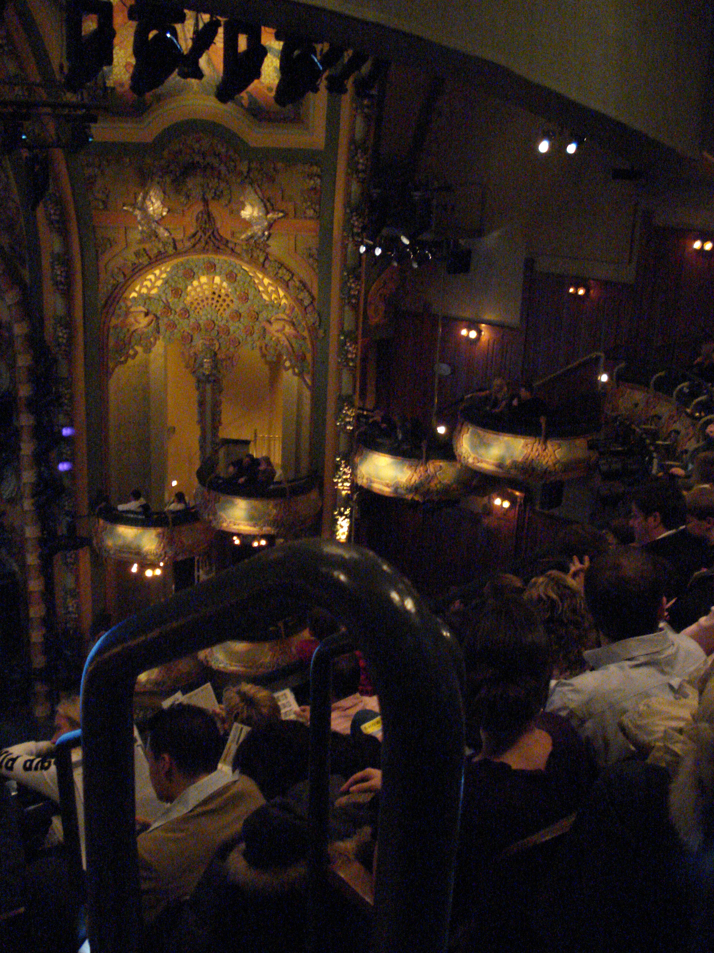 New Amsterdam Theatre, NYC, interior